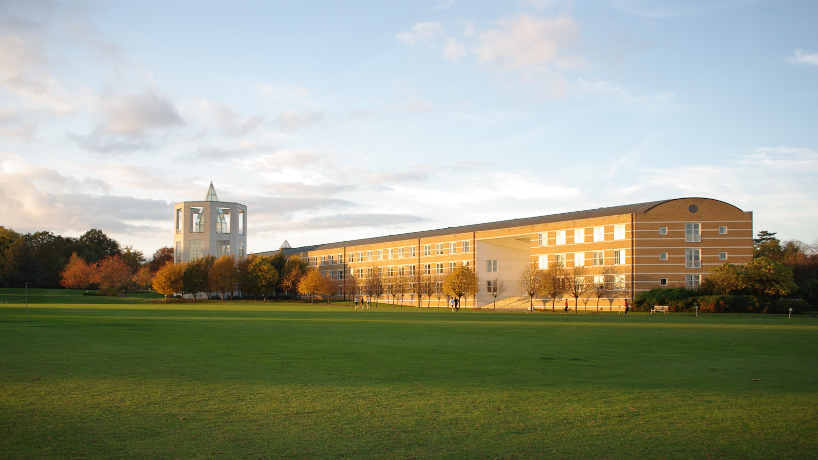 Churchill College, Cambridge 中文（中国大陆）: 剑桥大学丘吉尔学院